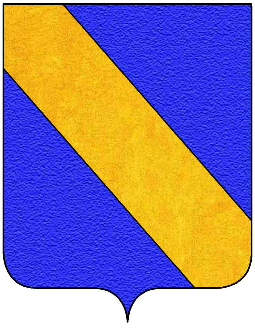 Coat of Arms of the Capizucchi family